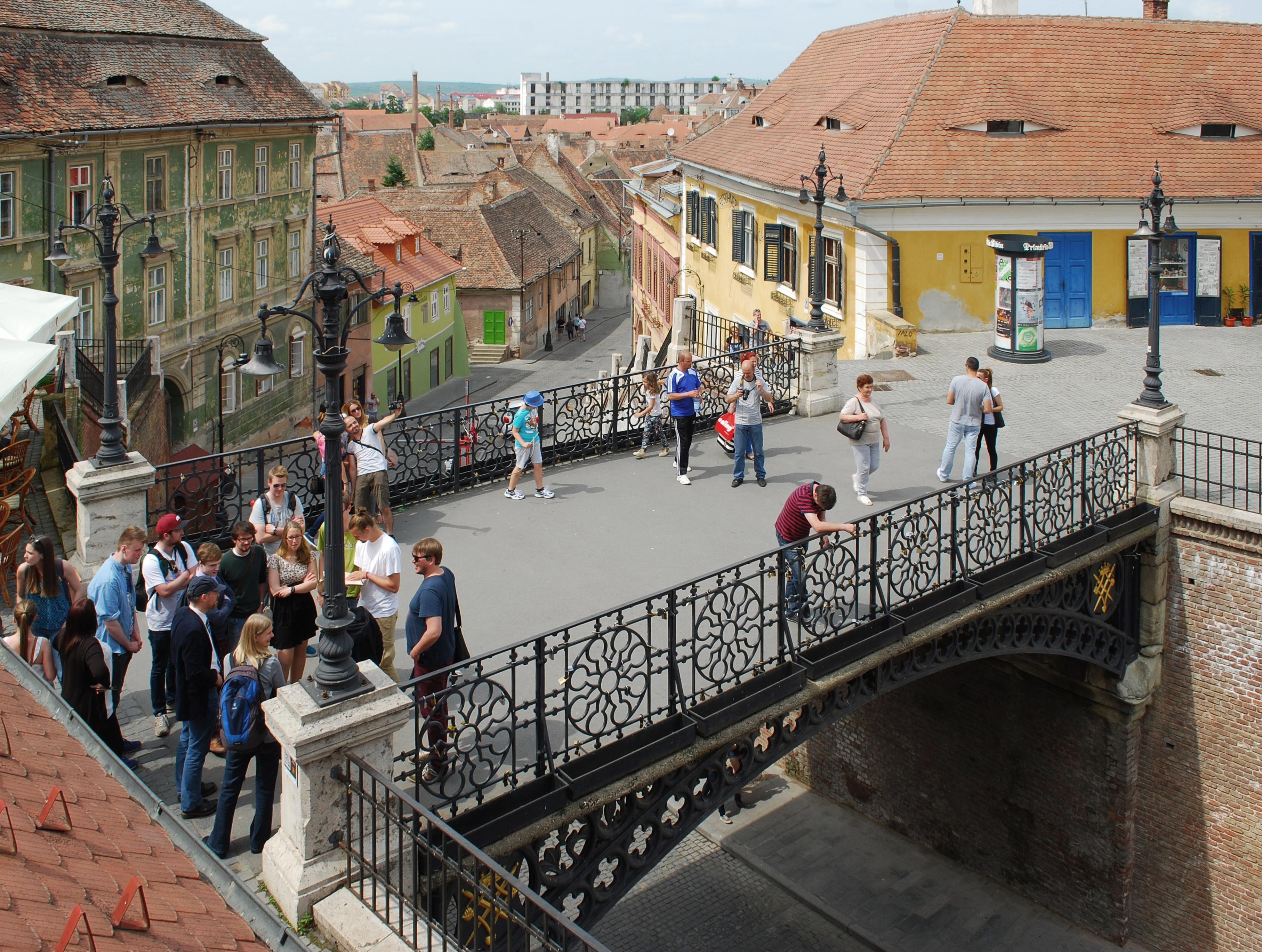 Bridge of Lies in Sibiu, Romania, seen from the first floor of an adjacent building.